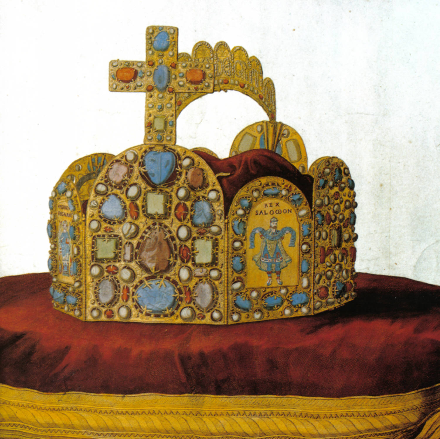 The Imperial Crown of the Holy Roman EmpireArtist: Johann Adam Delsenbach, done in 1751.